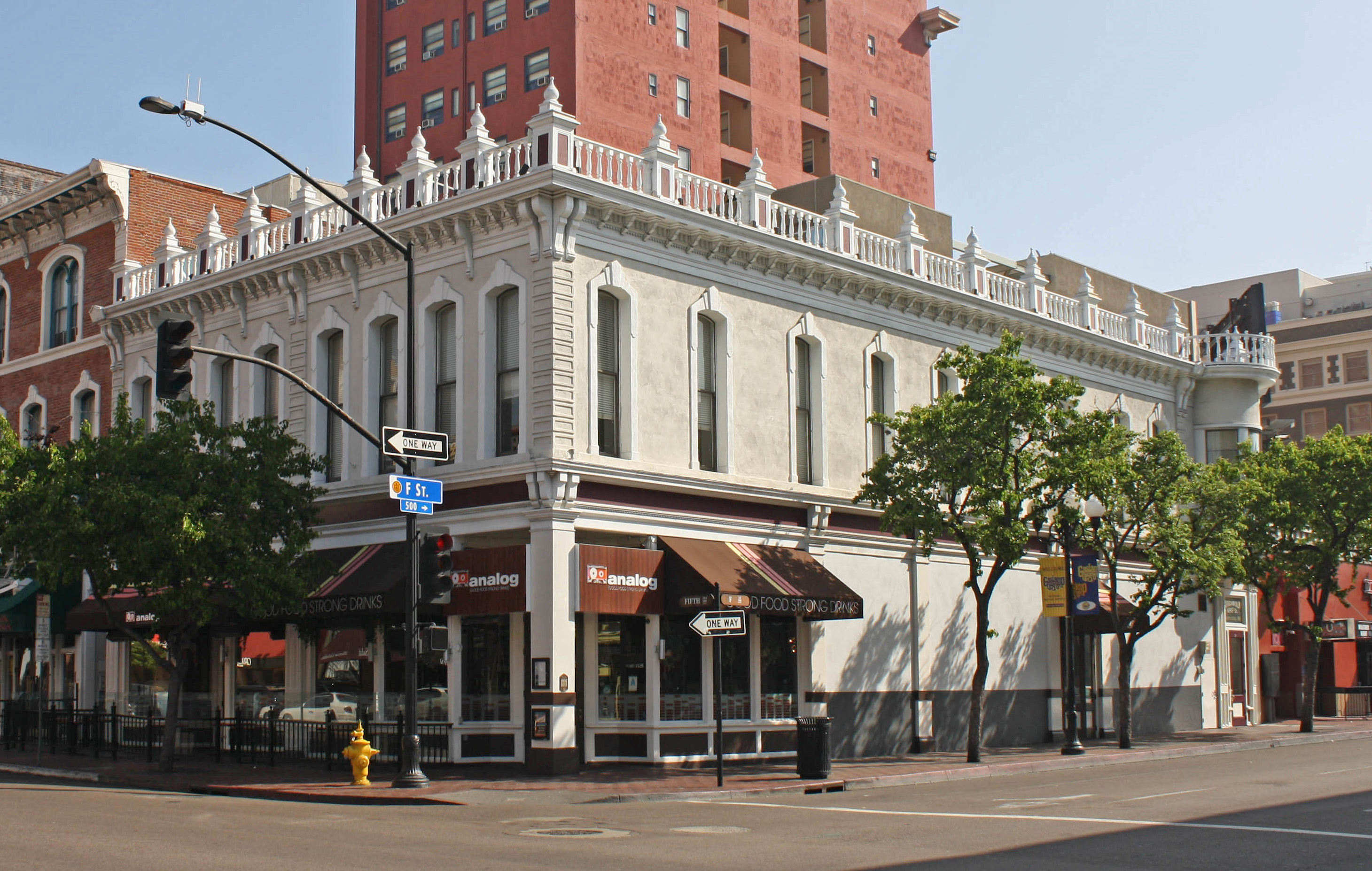 Marston Building, Gaslamp Quarter, San Diego, California